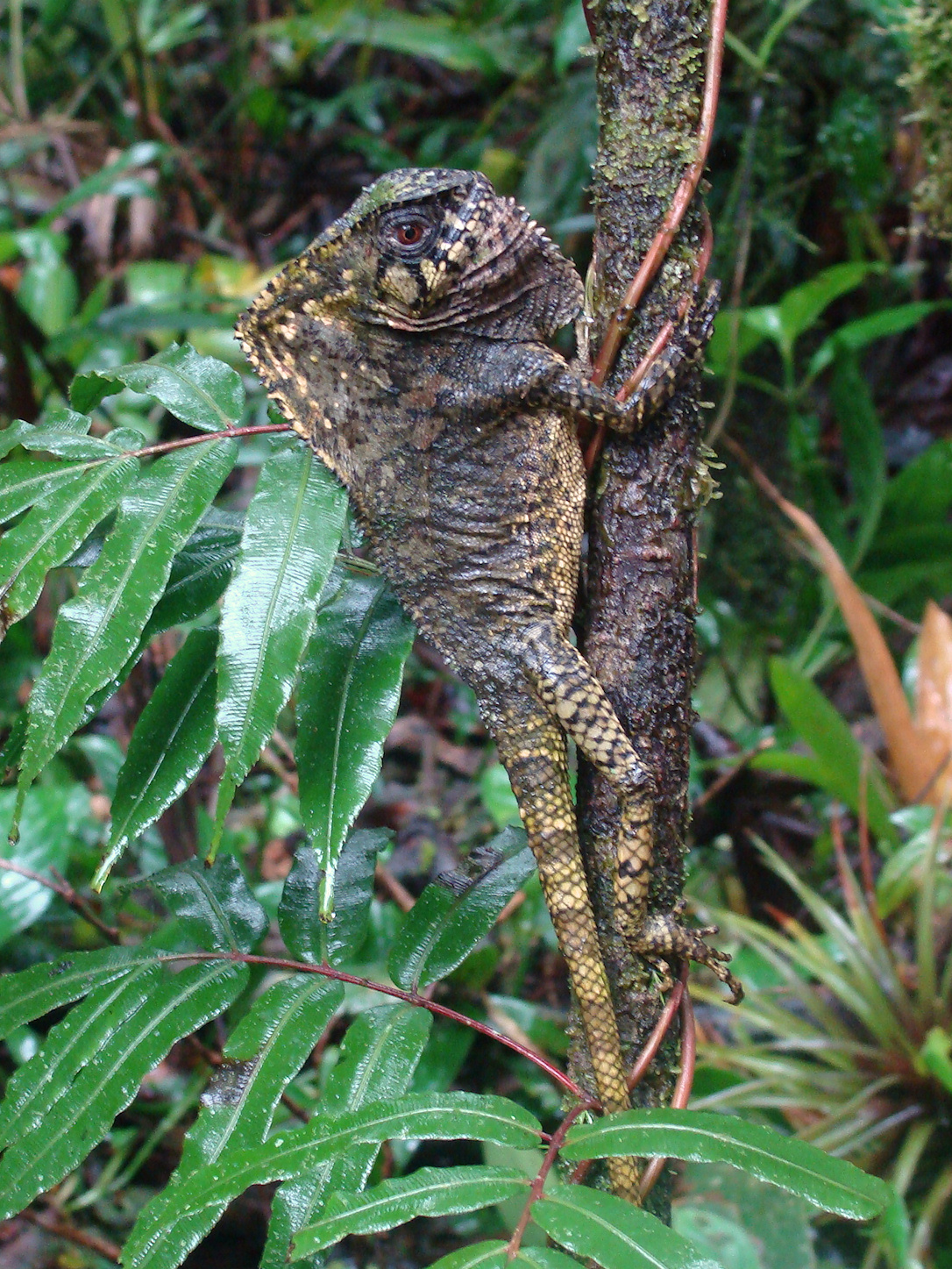 Helmeted Iguana near Rara Avis, Costa Rica.